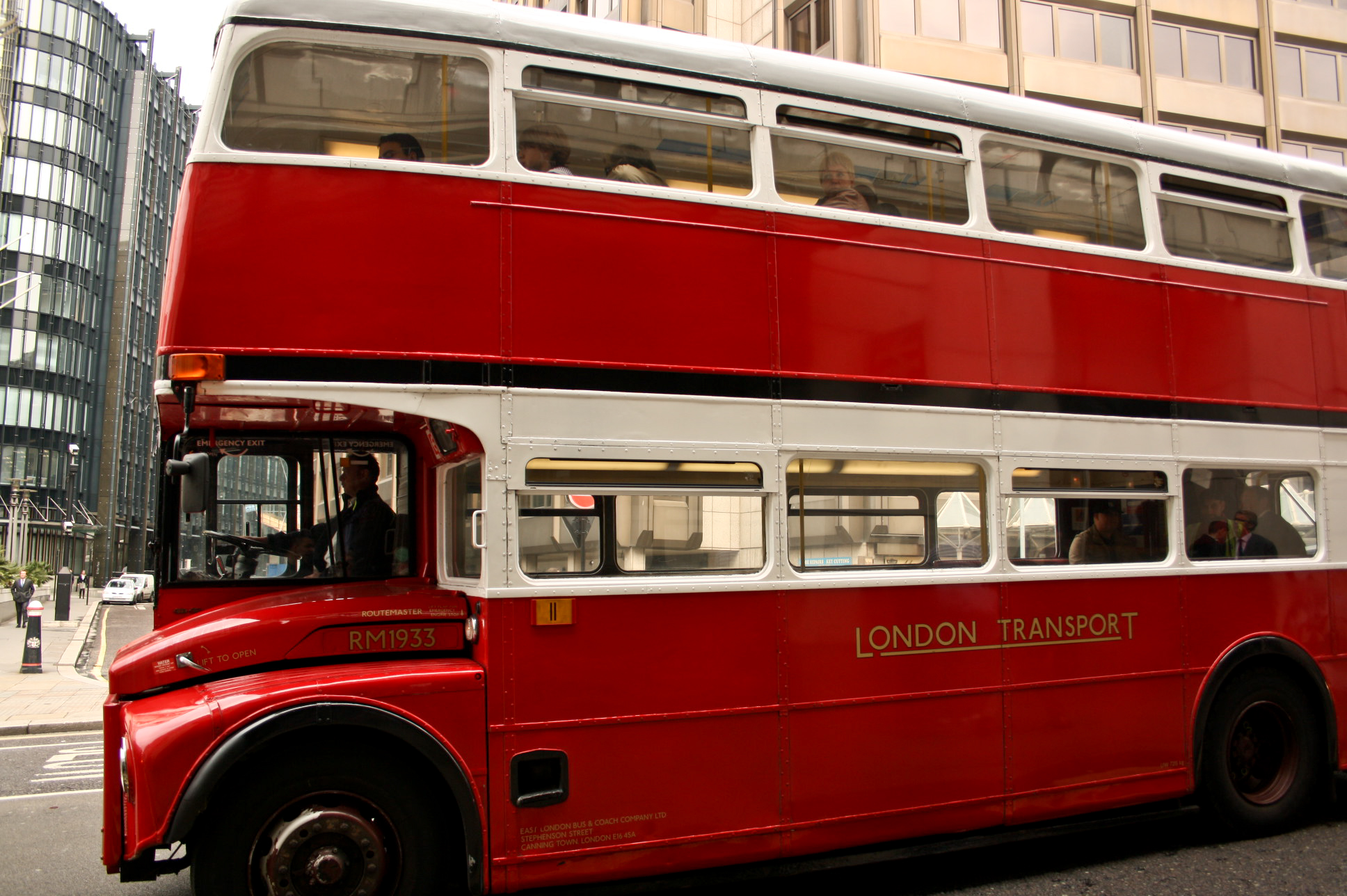 East London Routemaster bus RM1933 (reg. ALD 933B), pictured heading west along Ludgate Hill in City of London, operating London Buses heritage route 15 (Limeburner Lane is the street that can be seen past the driver's cab). The bus wears a commemorative version of the 1933 red/white/silver London Transport livery. (image edited with lightroom)